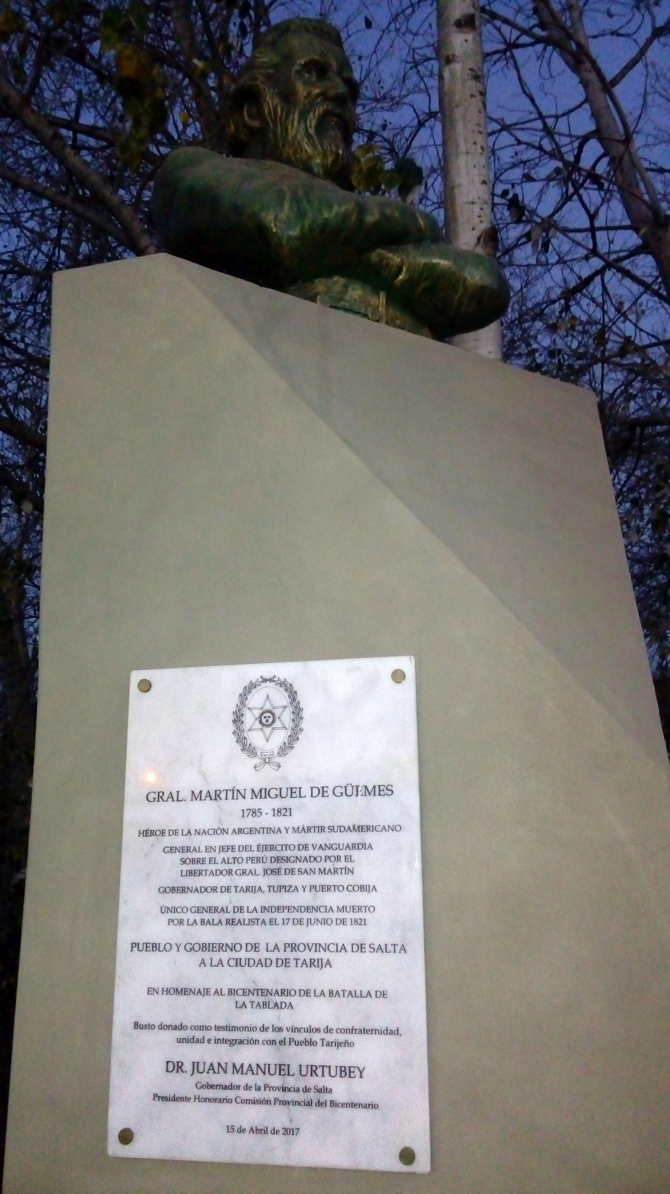 Gral. Martín Miguel de Güemes monument in the city of Tarija, Bolivia